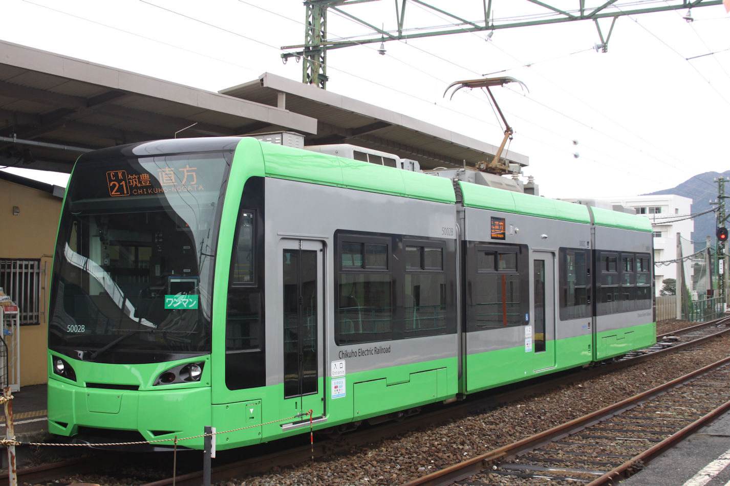 Chikuho Electric Railroad 5000 series tramcar 5002